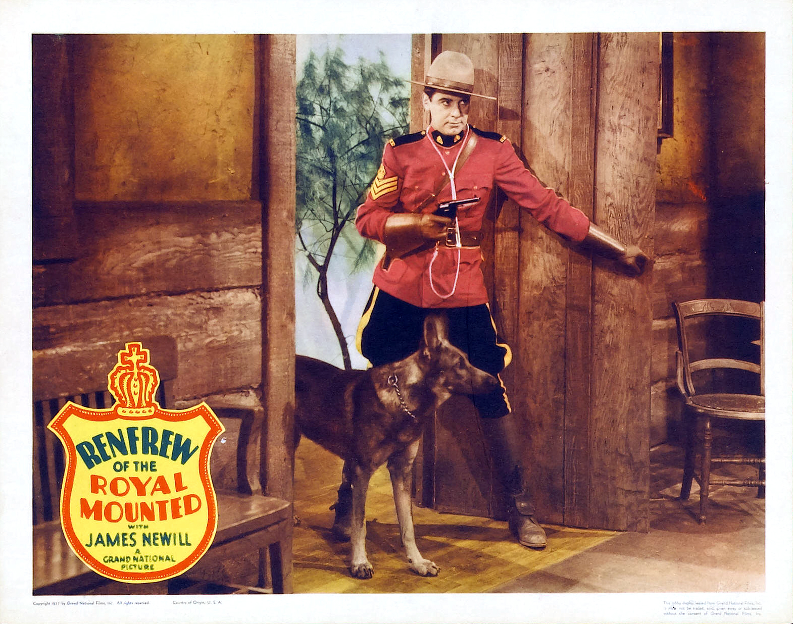 Lobby card from the 1937 film Renfrew of the Royal Mounted, featuring James Newill and Lightning